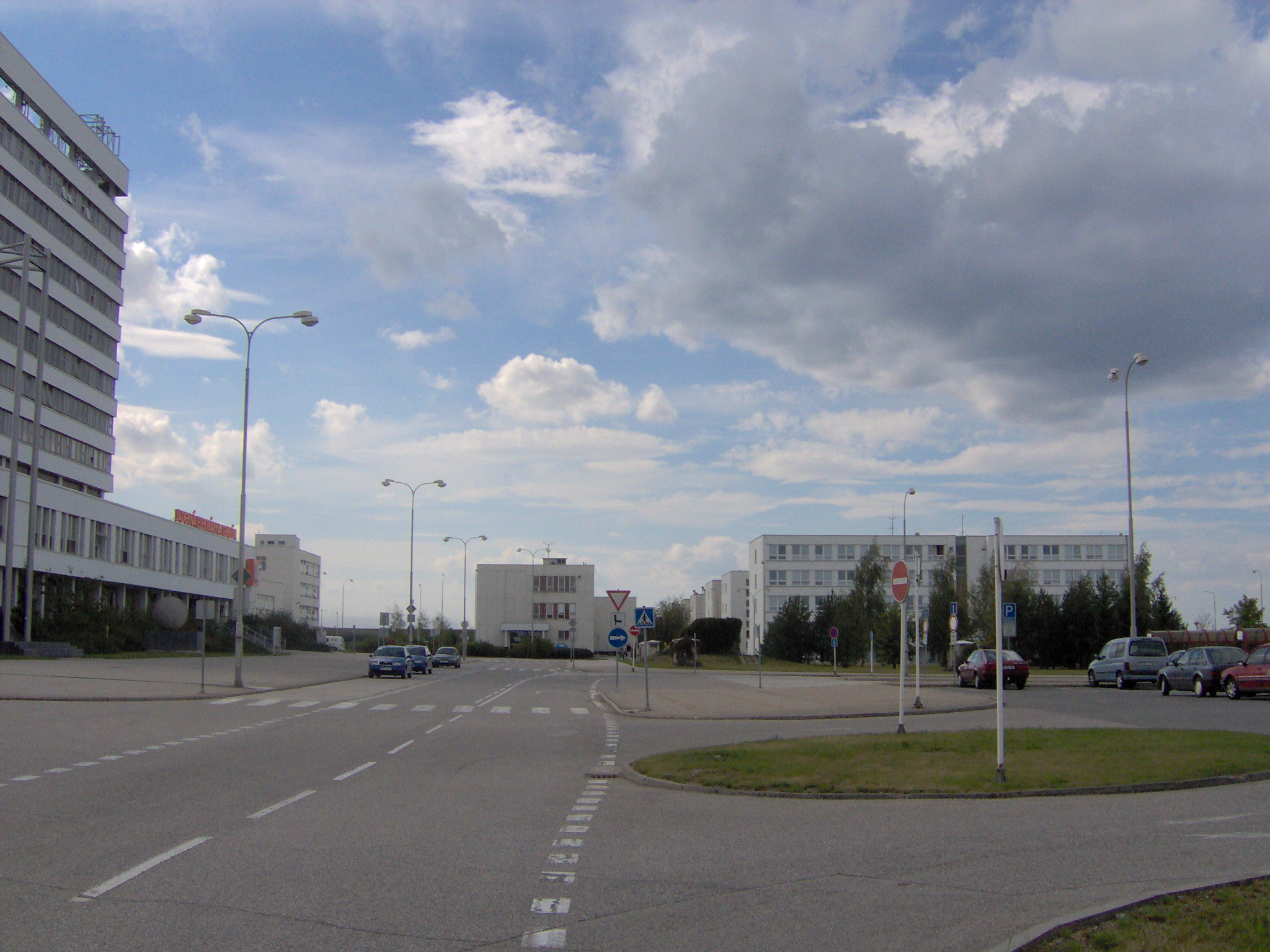 View of buildings of Temelín Nuclear Power Station.